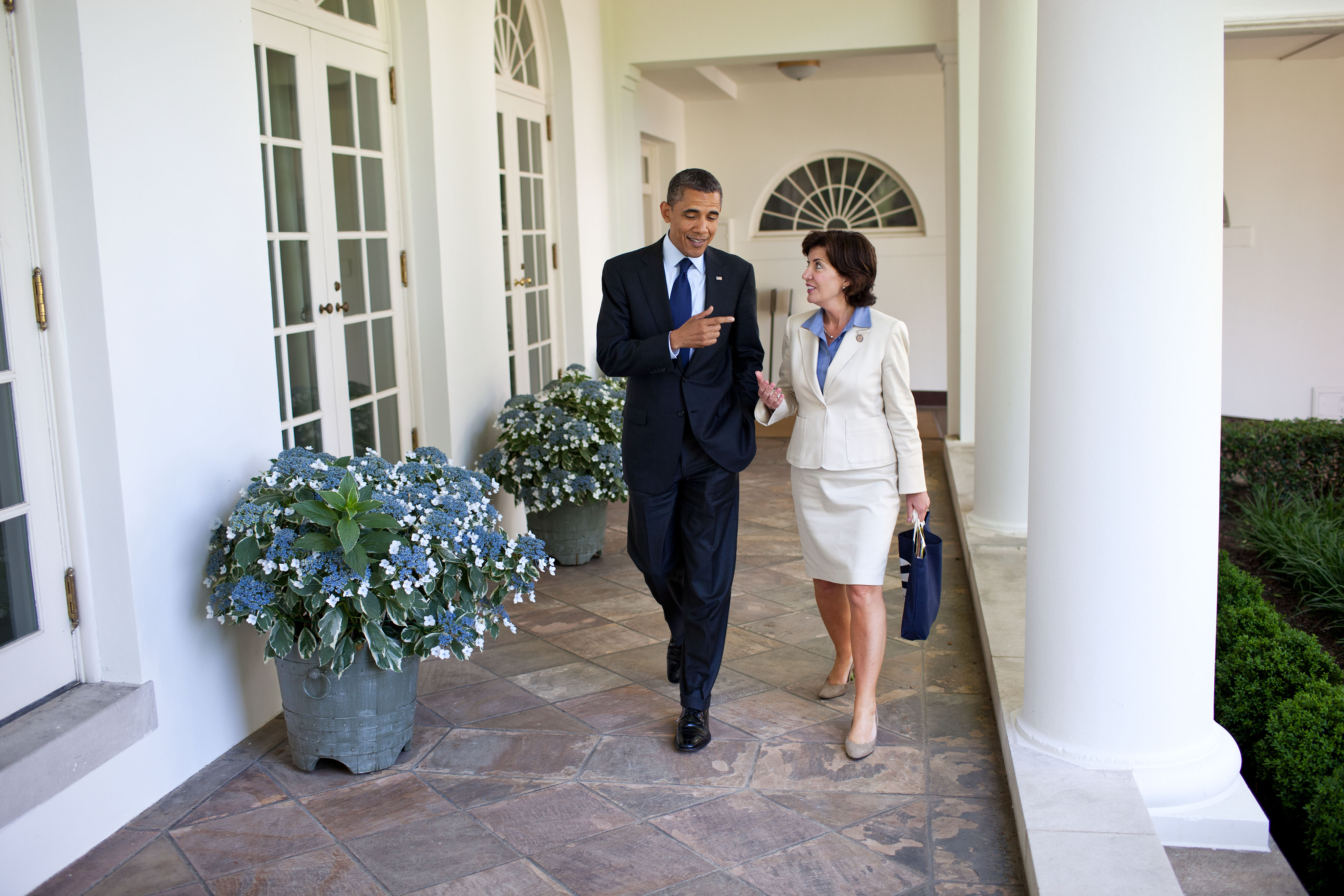 President Barack Obama walks along the Colonnade of the White House with newly-elected Rep. Kathy Hochul, D-N.Y., June 2, 2011. (Official White House Photo by Pete Souza)